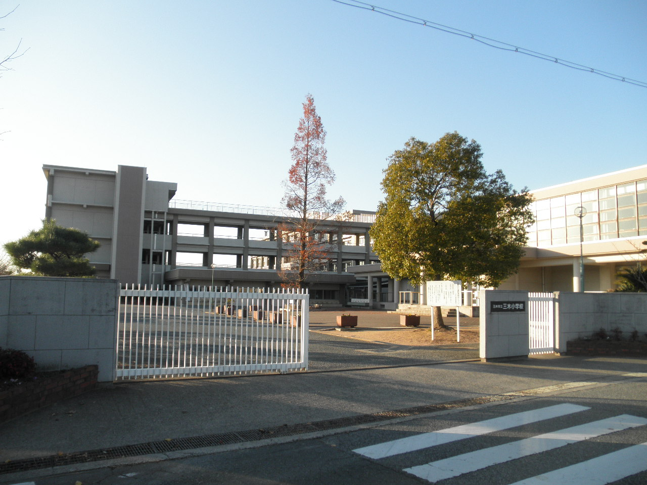 Miki elementary school